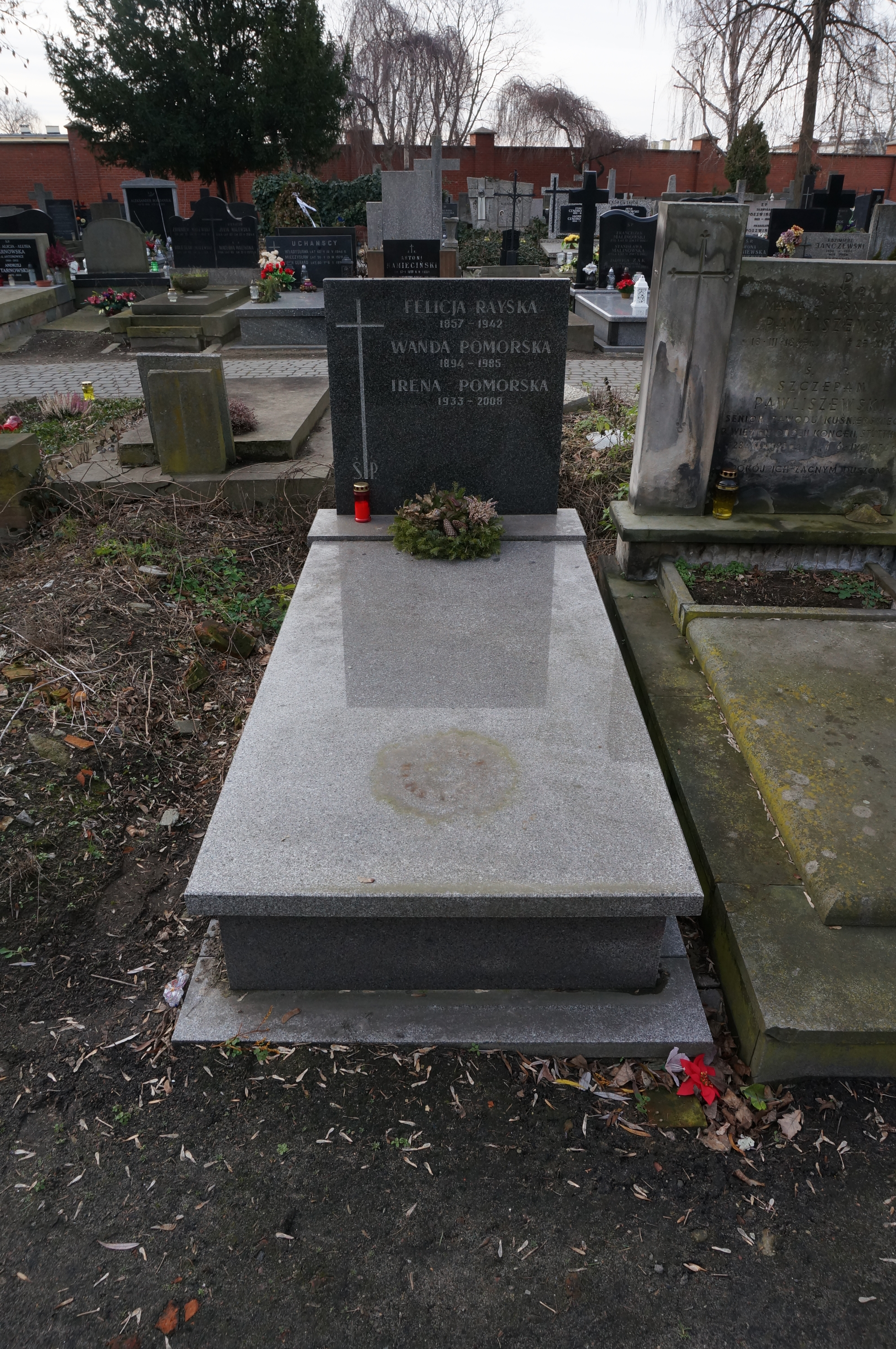 The grave of Irena Pomorska at the Powązki Cemetery (section 146a, row 5, grave 26)